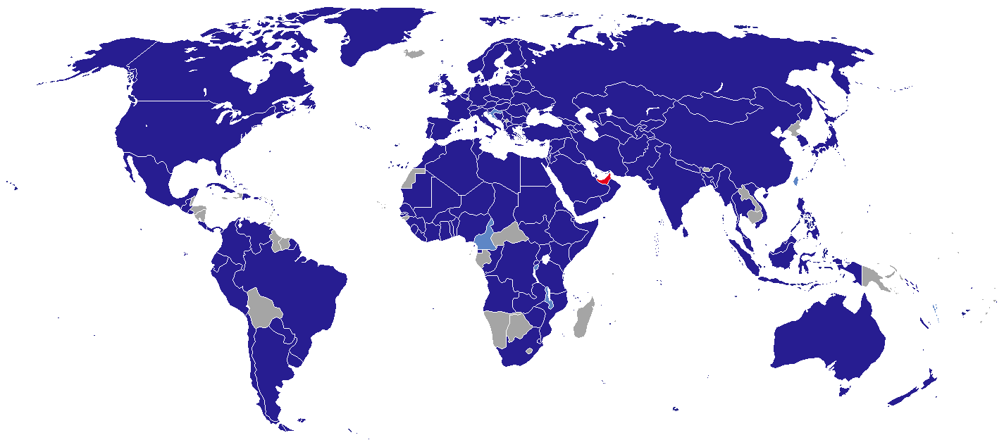 Map of diplomatic missions in the United Arab Emirates